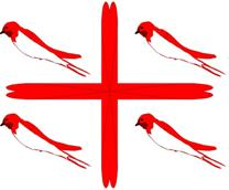 ((John Bird, 2006, self made))